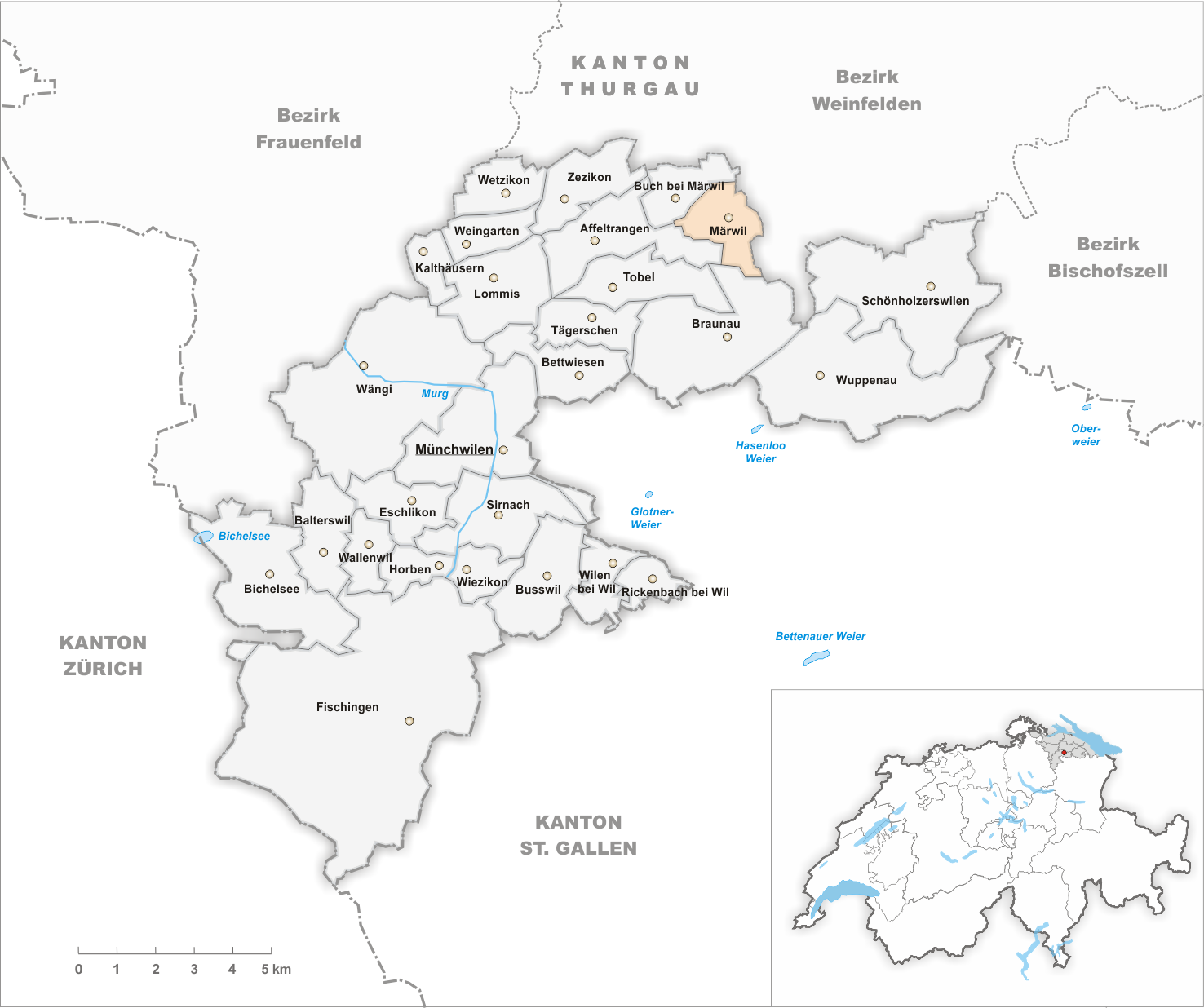 Municipality Märwil